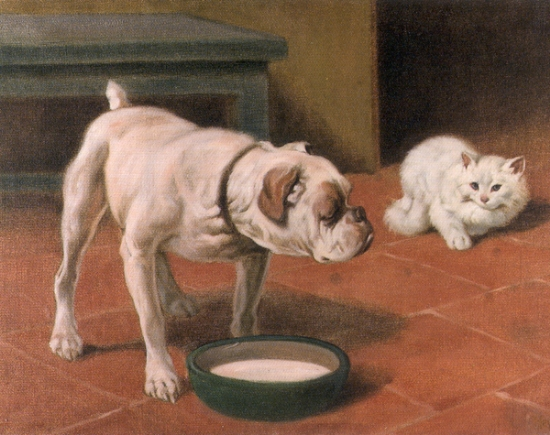 The Bulldog and the Cat